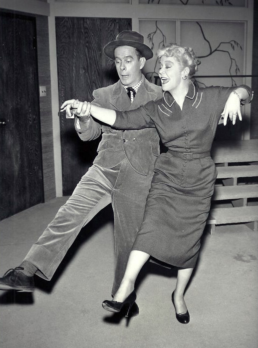 Photo of Harry Morgan as Pete Porter and Spring Byington as Lily Ruskin from the television program December Bride. In this episode, Pete helps his friend, Matt (Dean Miller), with a story he's told an old army buddy. Pete pretends to be an Italian immigrant while Lily also gets into the act to help son-in-law Matt.